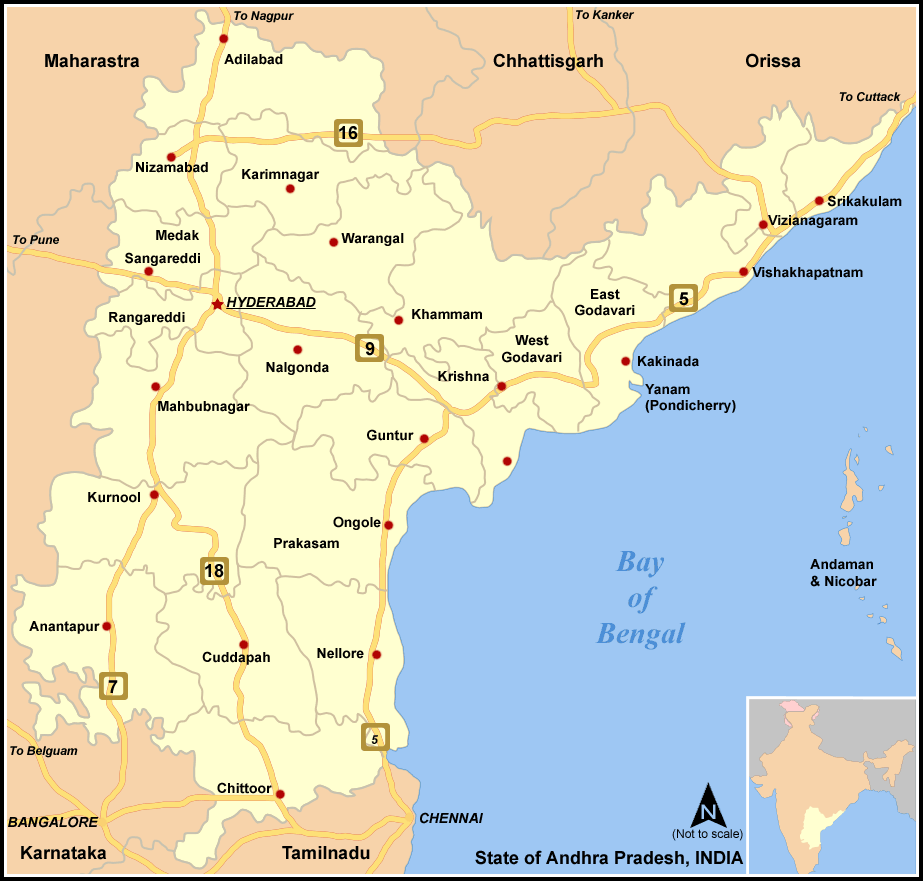 Map of Andhra Pradesh, India with major Road links.